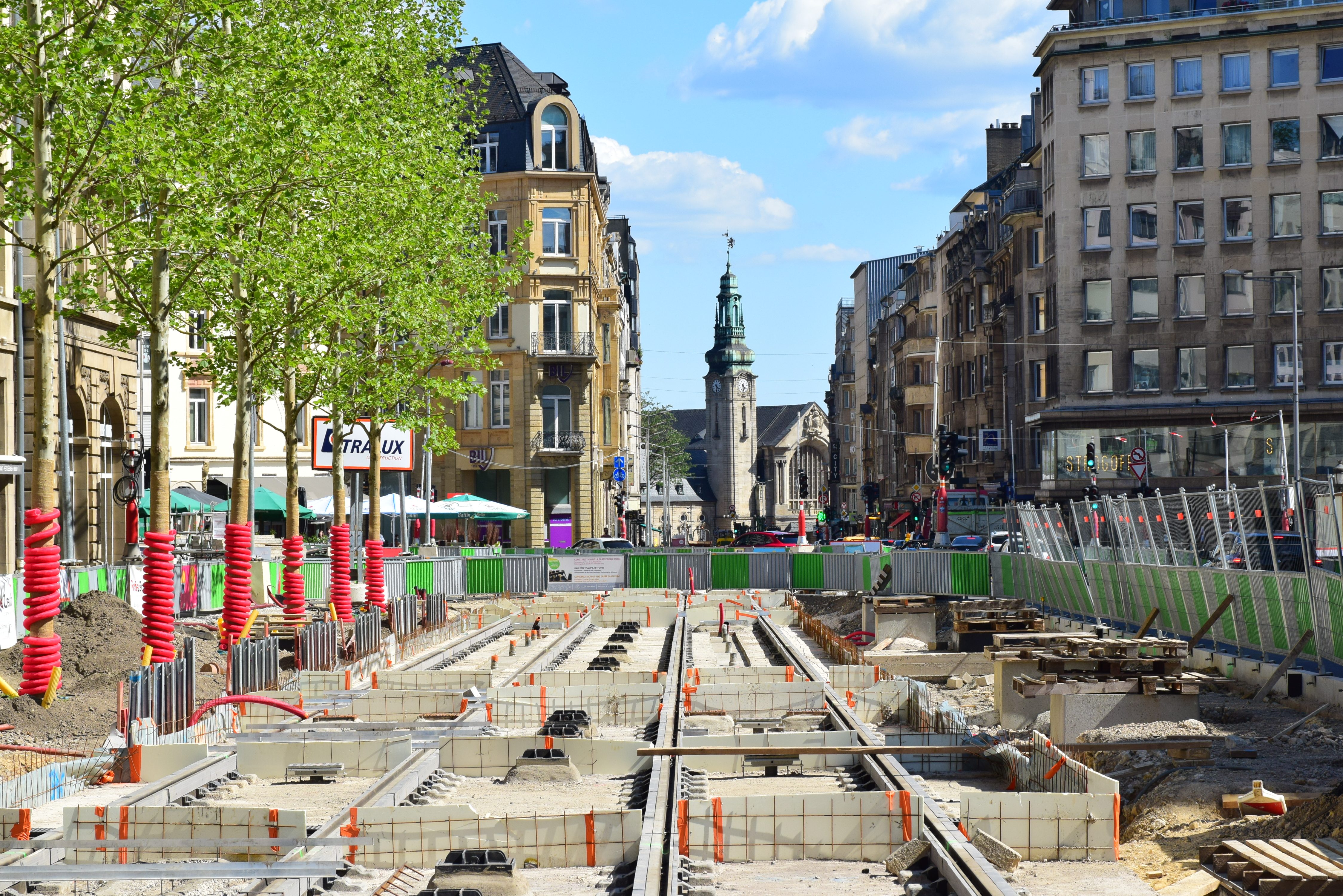 Construction site tram Luxembourg City 2020-05 Avenue de la Liberté